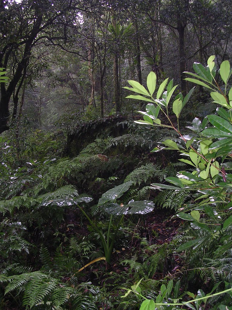 Moist tropical montane forest on Mt Legumau (1100 m) Luro subdistrict, Lautem, Timor-Leste